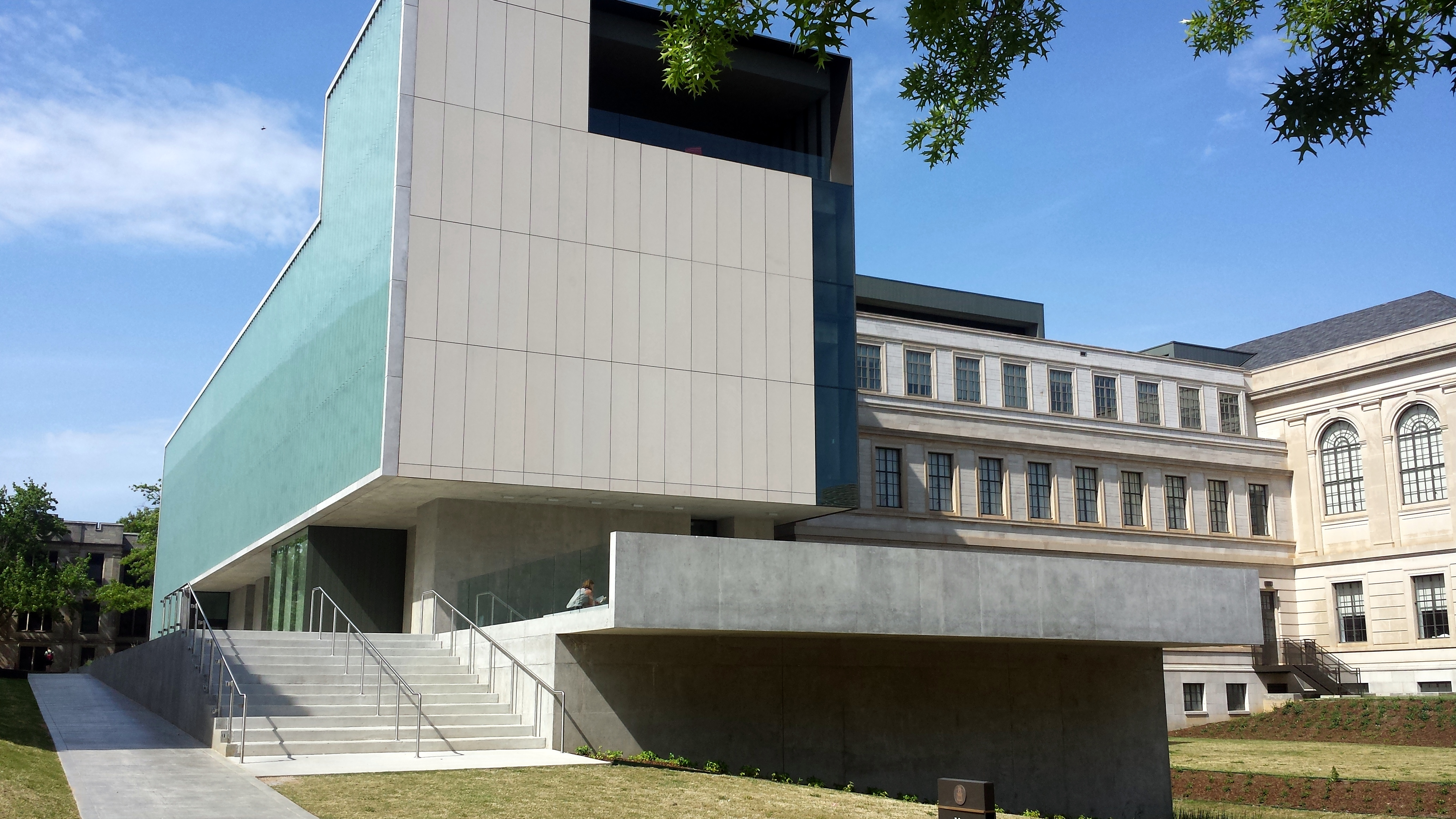 Modern addition to Vol Walker Hall